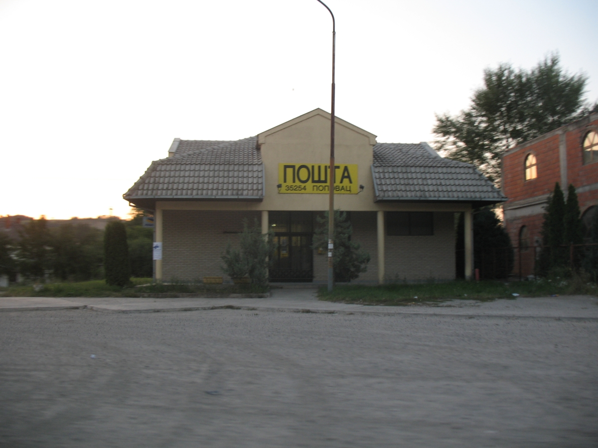 Post office in Popovac,near Paraćin,Serbia.